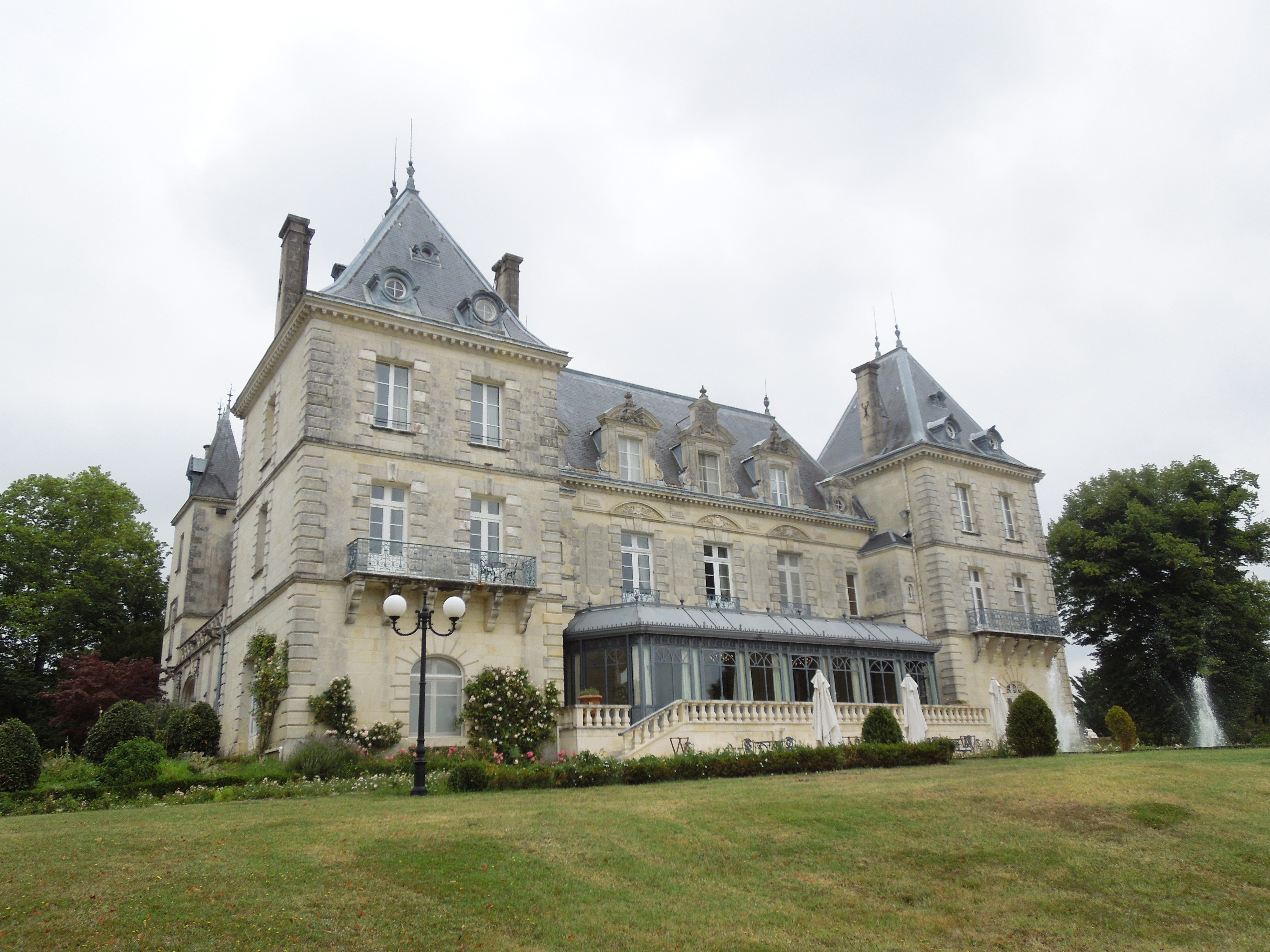 Chateau de Mirambeau, western facade